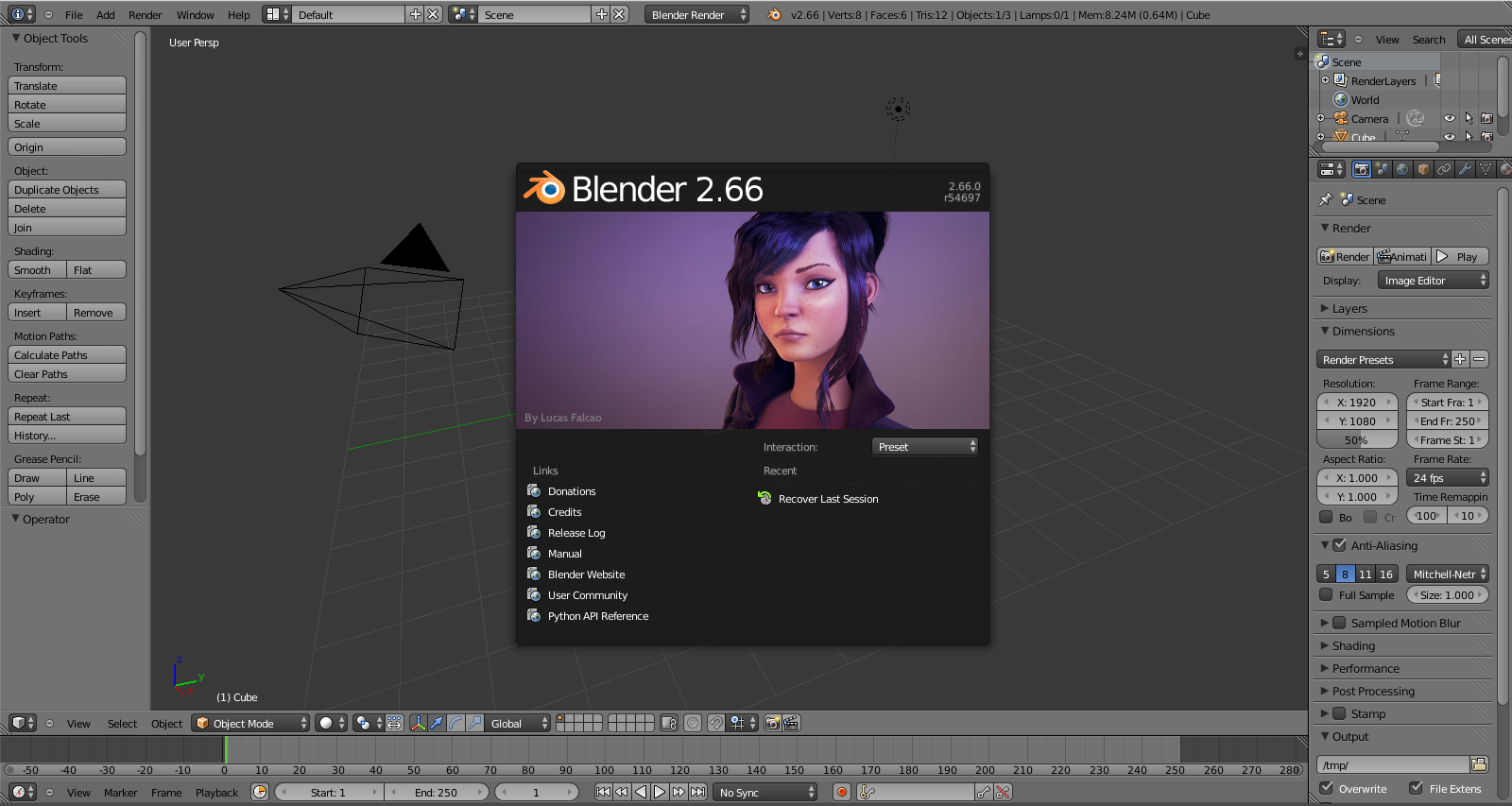 2.66 blender interface screen capture